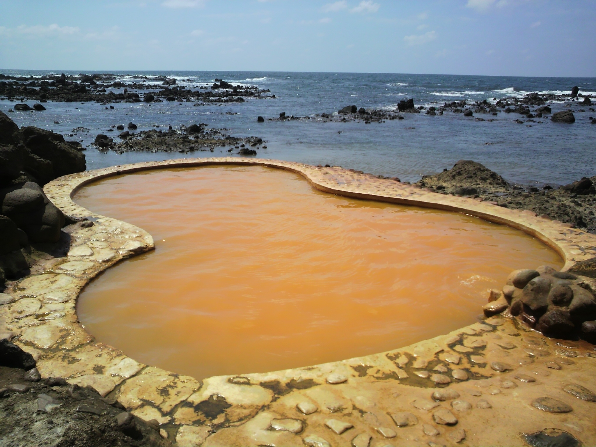 Furofushi-spa. At Fukaura,Nishi-Tsugaru,Aomori,Japan.